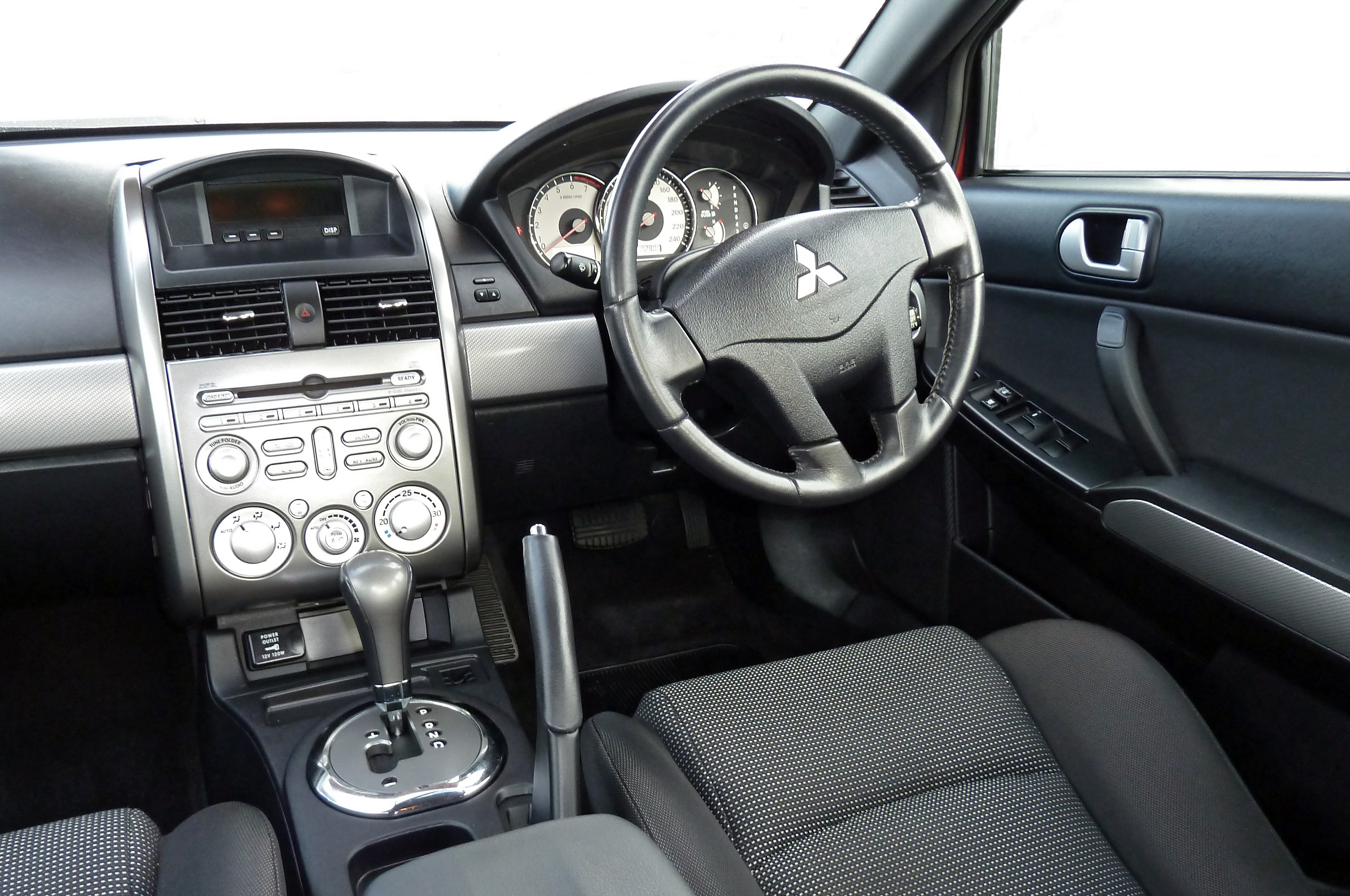 2007 Mitsubishi 380 (DB II) SX sedan. Photographed at Tynan Motors, Kirrawee, New South Wales, Australia.